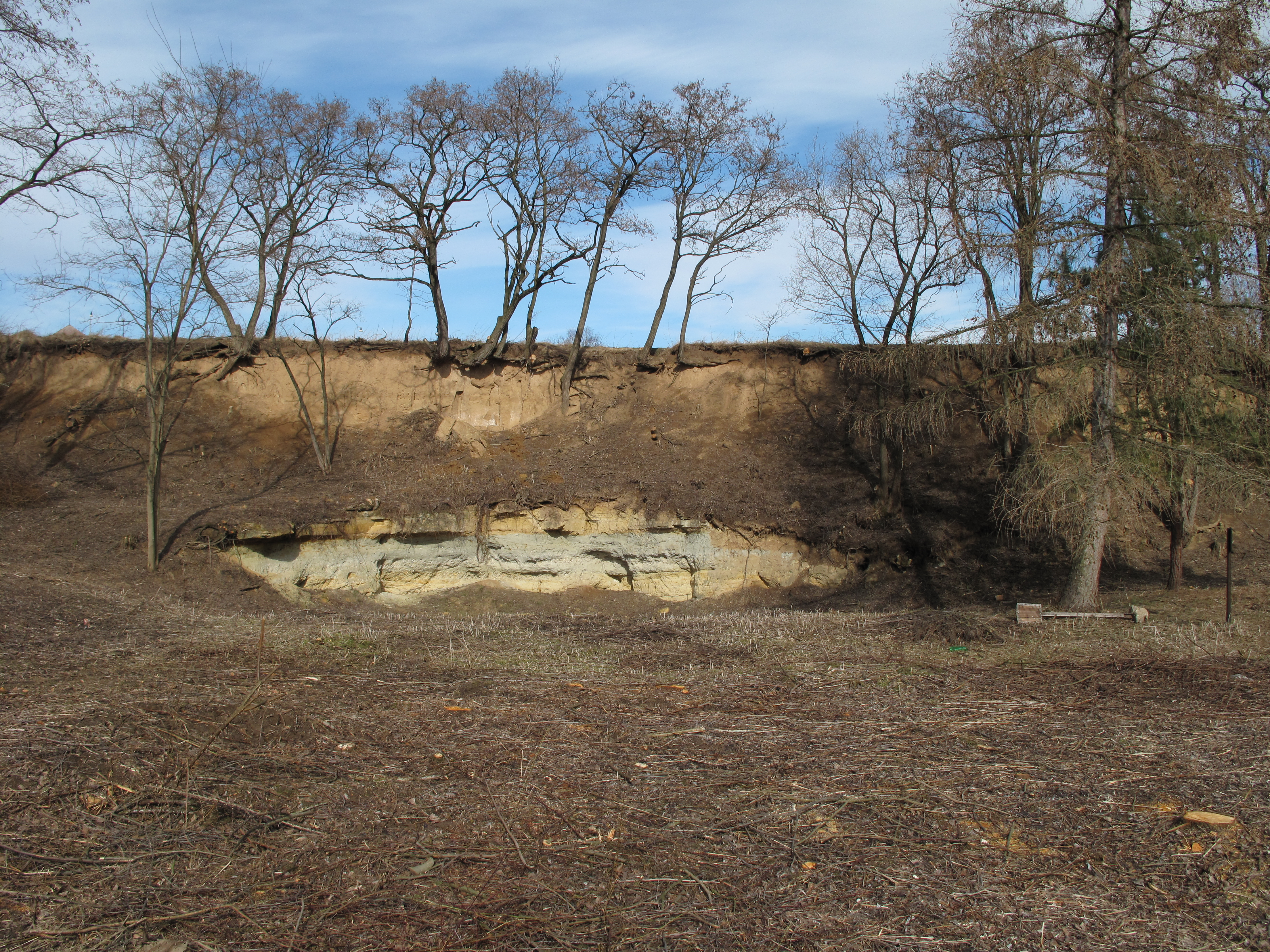 Natural monument Lom u Červených Peček, Kolín District, Czech Republic.